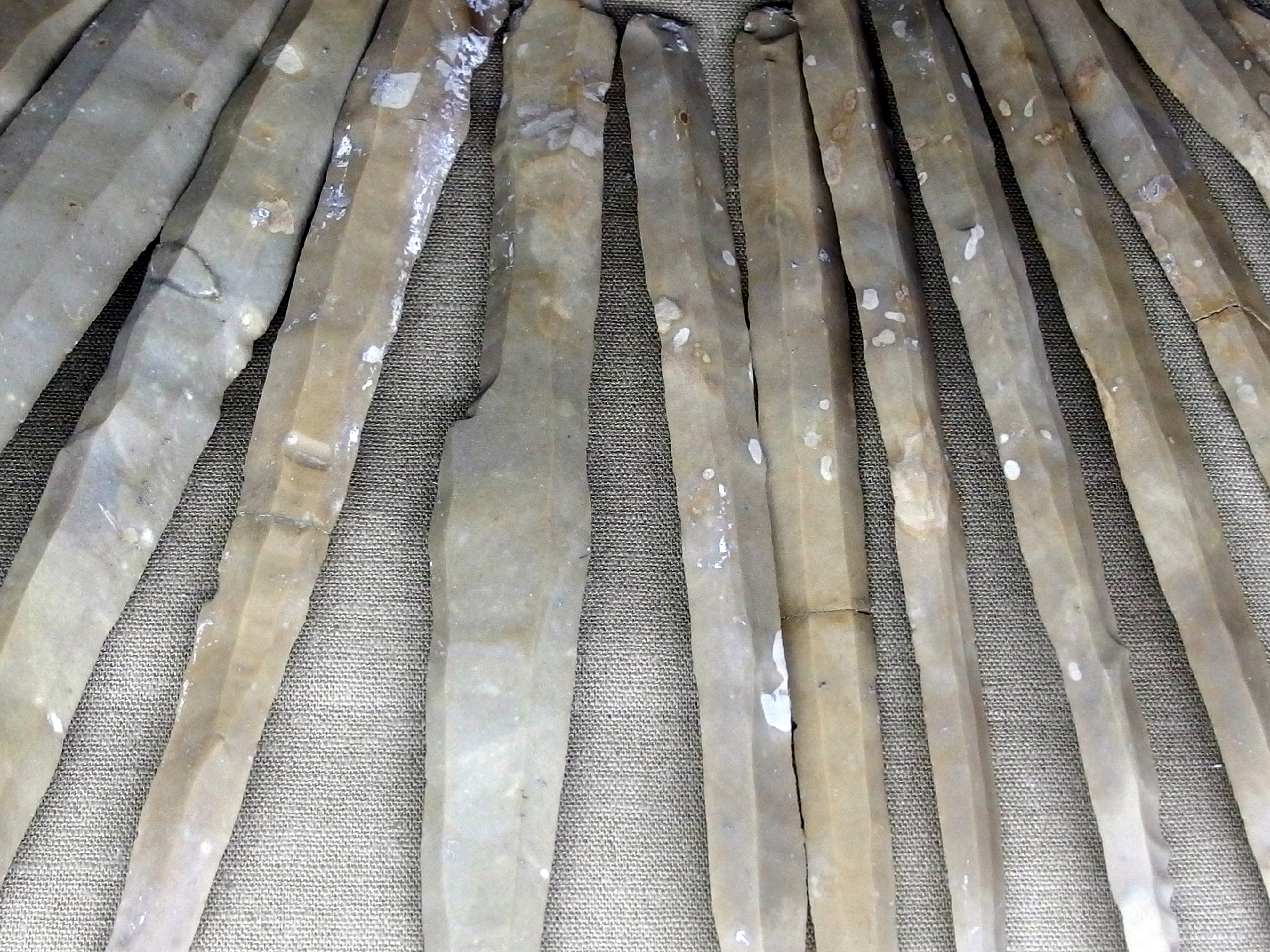 2014-06-11 in Varna.